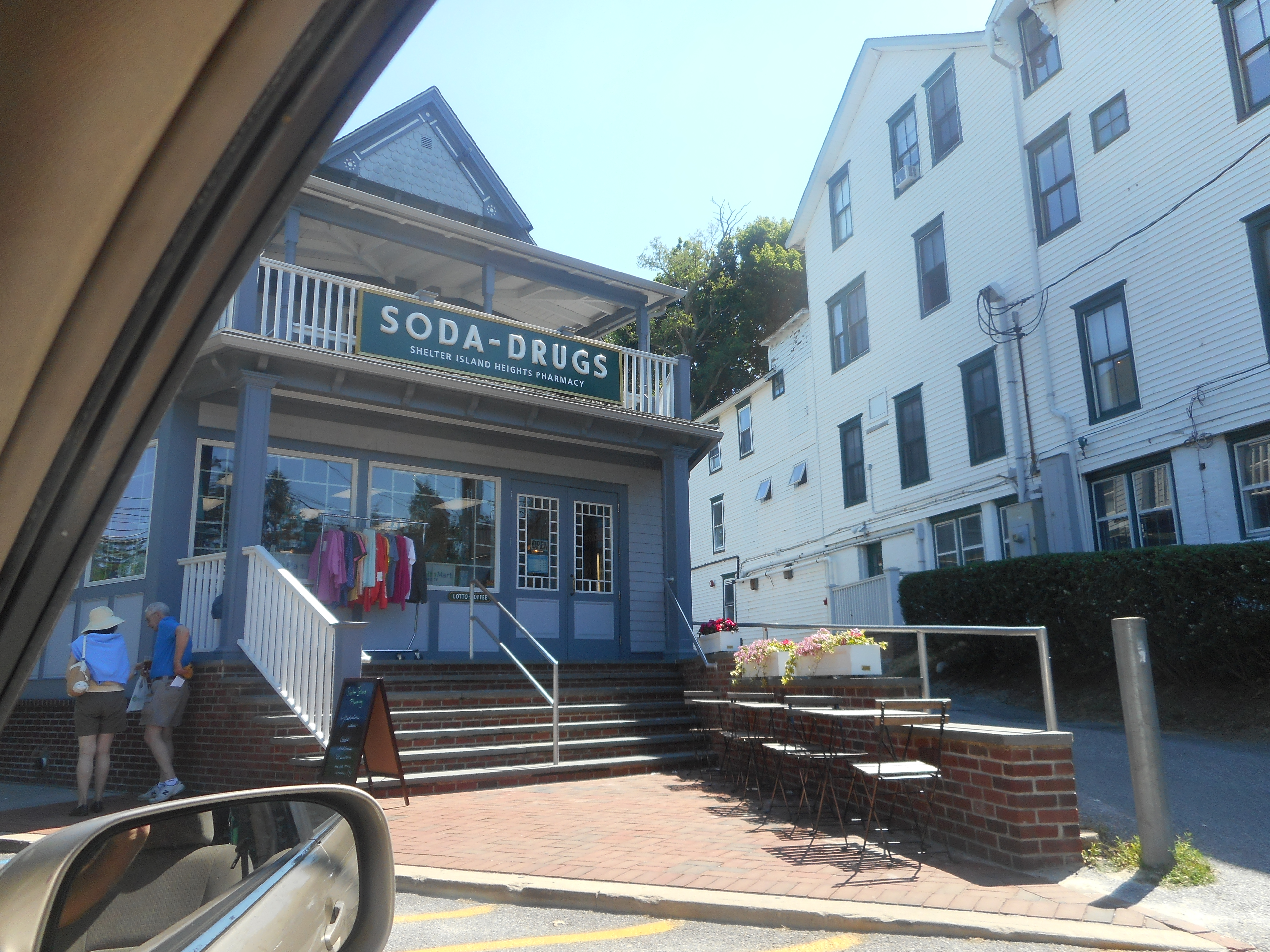 Shelter Island Heights Pharmacy, an old-fashioned drug store on southbound NY 114 in Shelter Island Heights, New York, right next to the historic Chequit Hotel. If the drug store were actually part of the hotel grounds, and owned by the hotel itself, I wouldn't be that surprised.